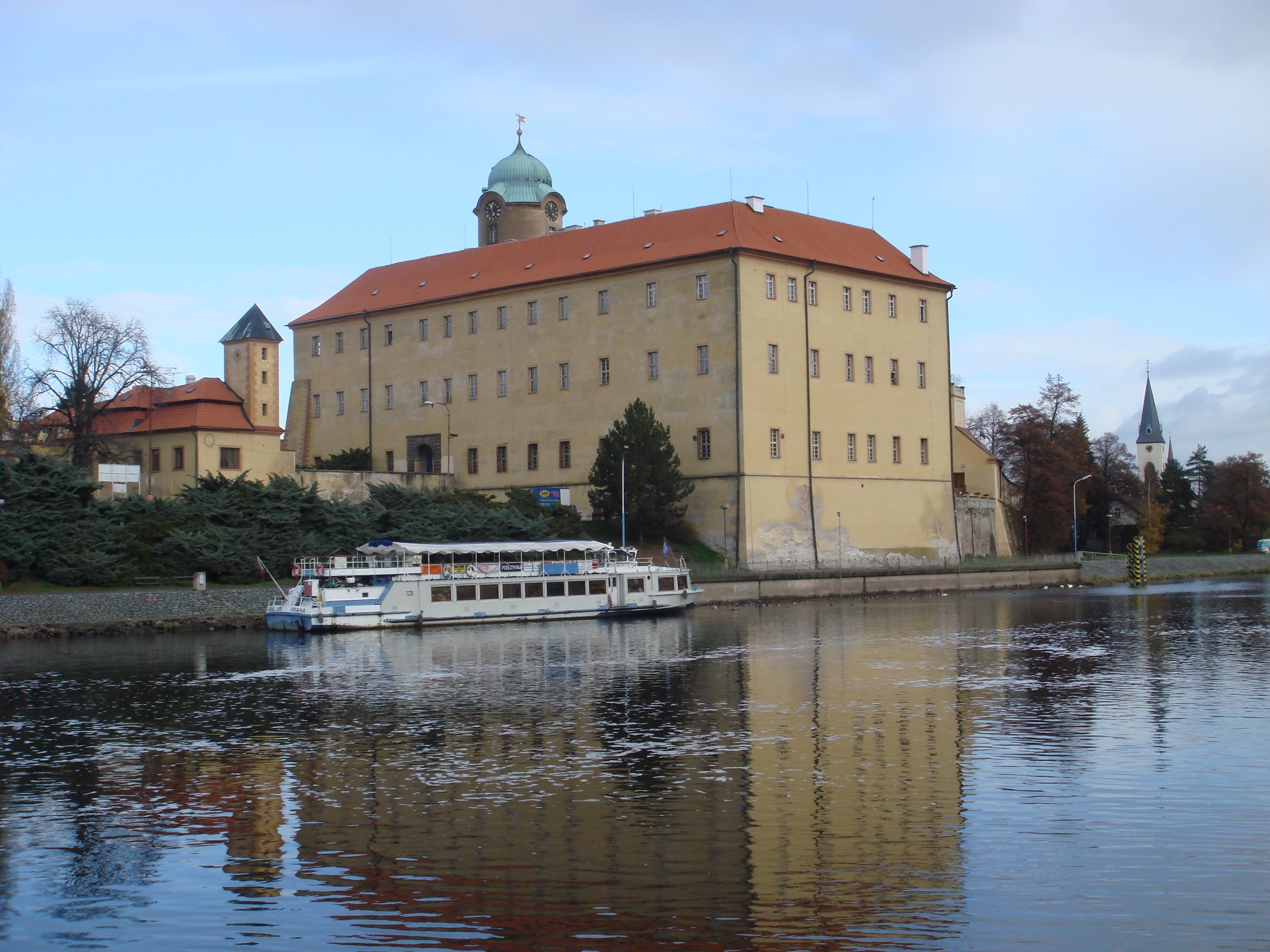 Chateau in Poděbrady (Central Bohemian Region, Czech Republic).